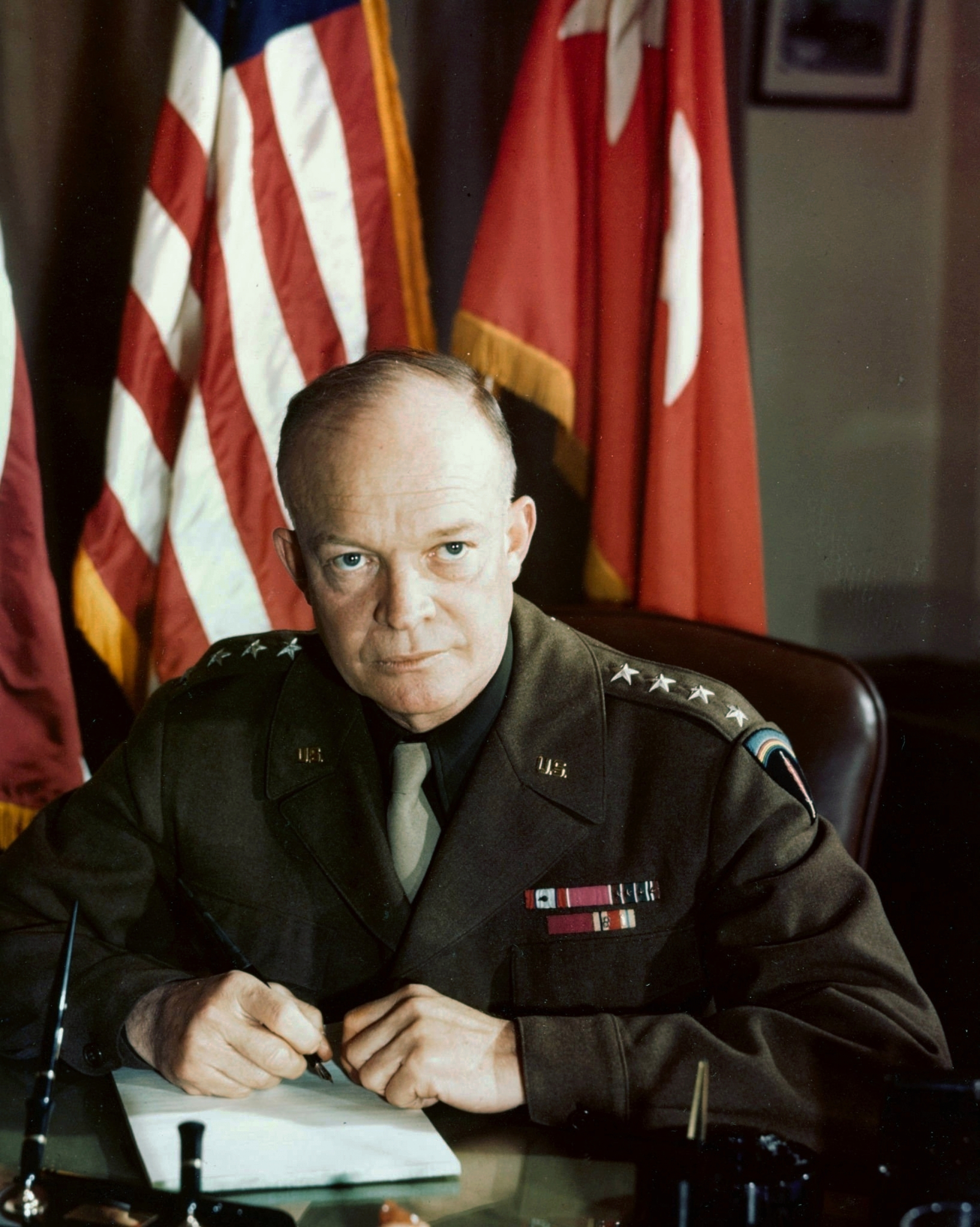 General of the Army Dwight David Eisenhower when a 4-star General